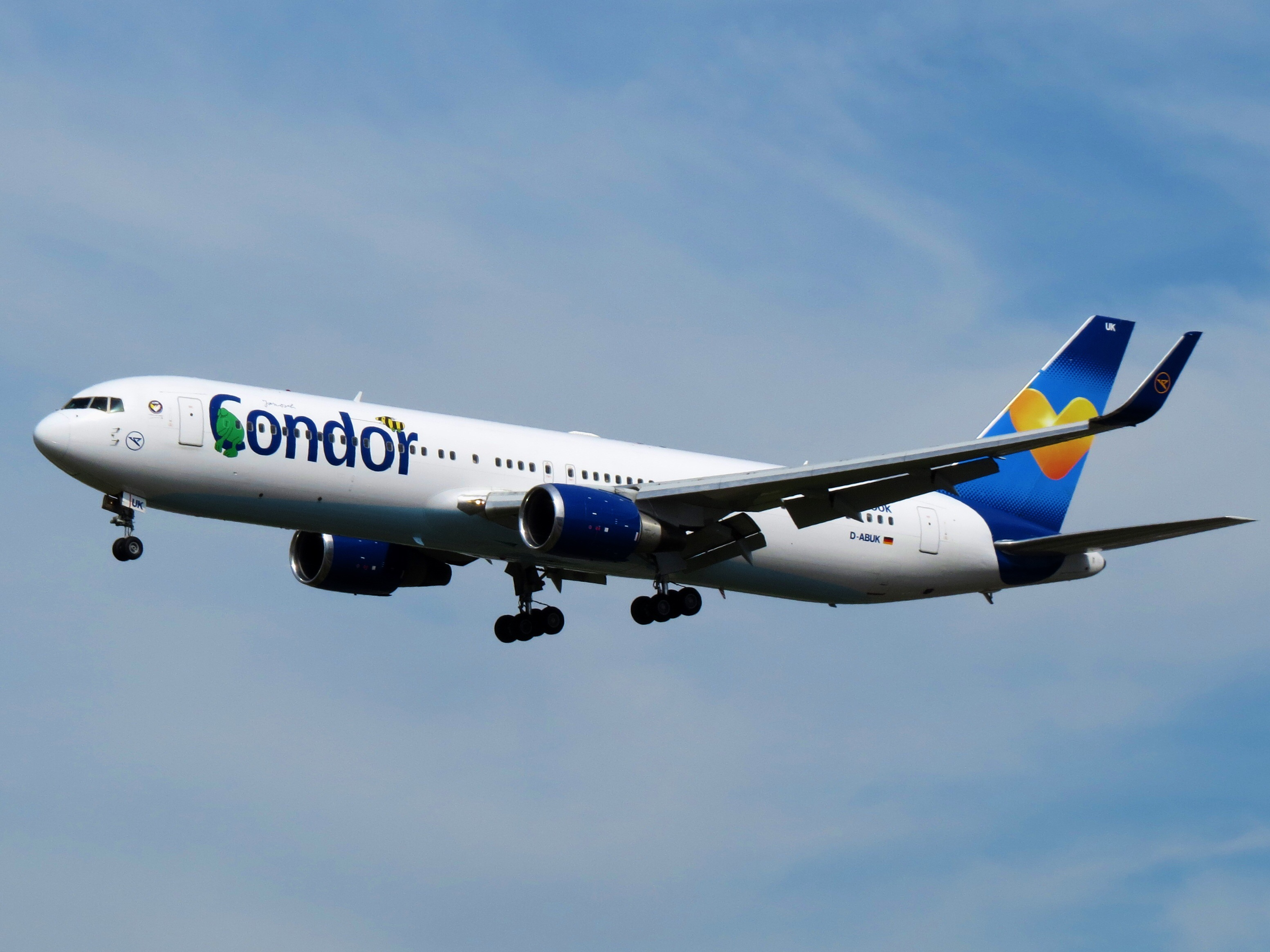 Condor Airlines Boeing 767-343